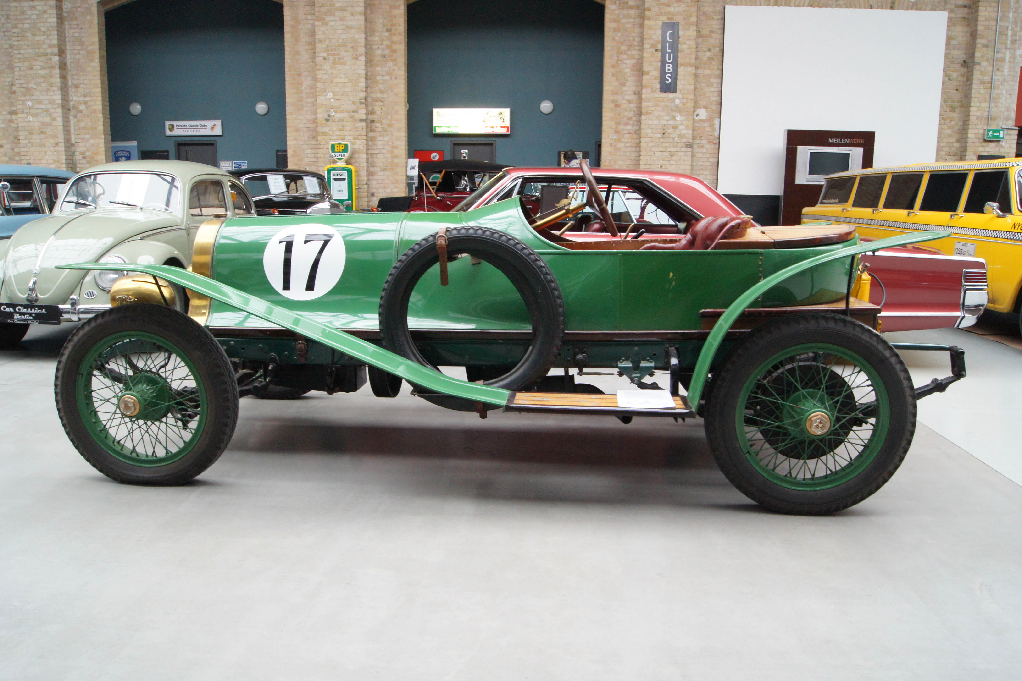 NAG race car of 1913 in Berlin Plötzensee (2010)